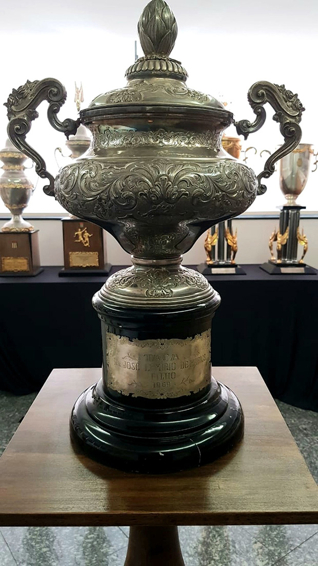 Trophy won by Ponte Preta in the Access Division (current A2 series) in 1969.